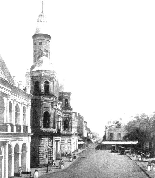 New Orleans, 1842. View of Chartres Street at Jackson Square, looking down river, with St. Louis Cathedral at left. Lithograph based on daguerreotype, by Jules Lion. Titles “La Cathédrale” or "View of Chartres Street".